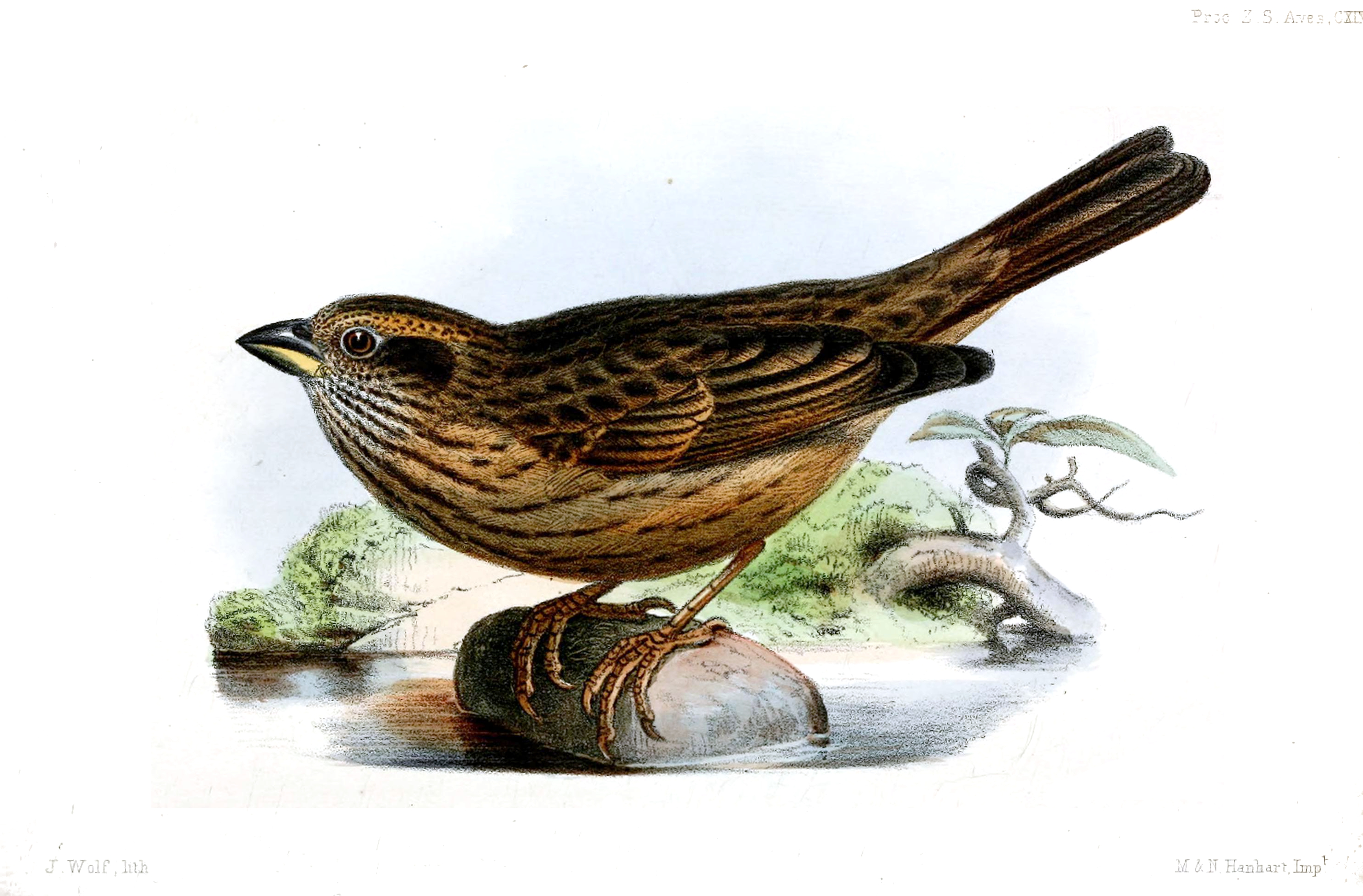 Propasser thura female